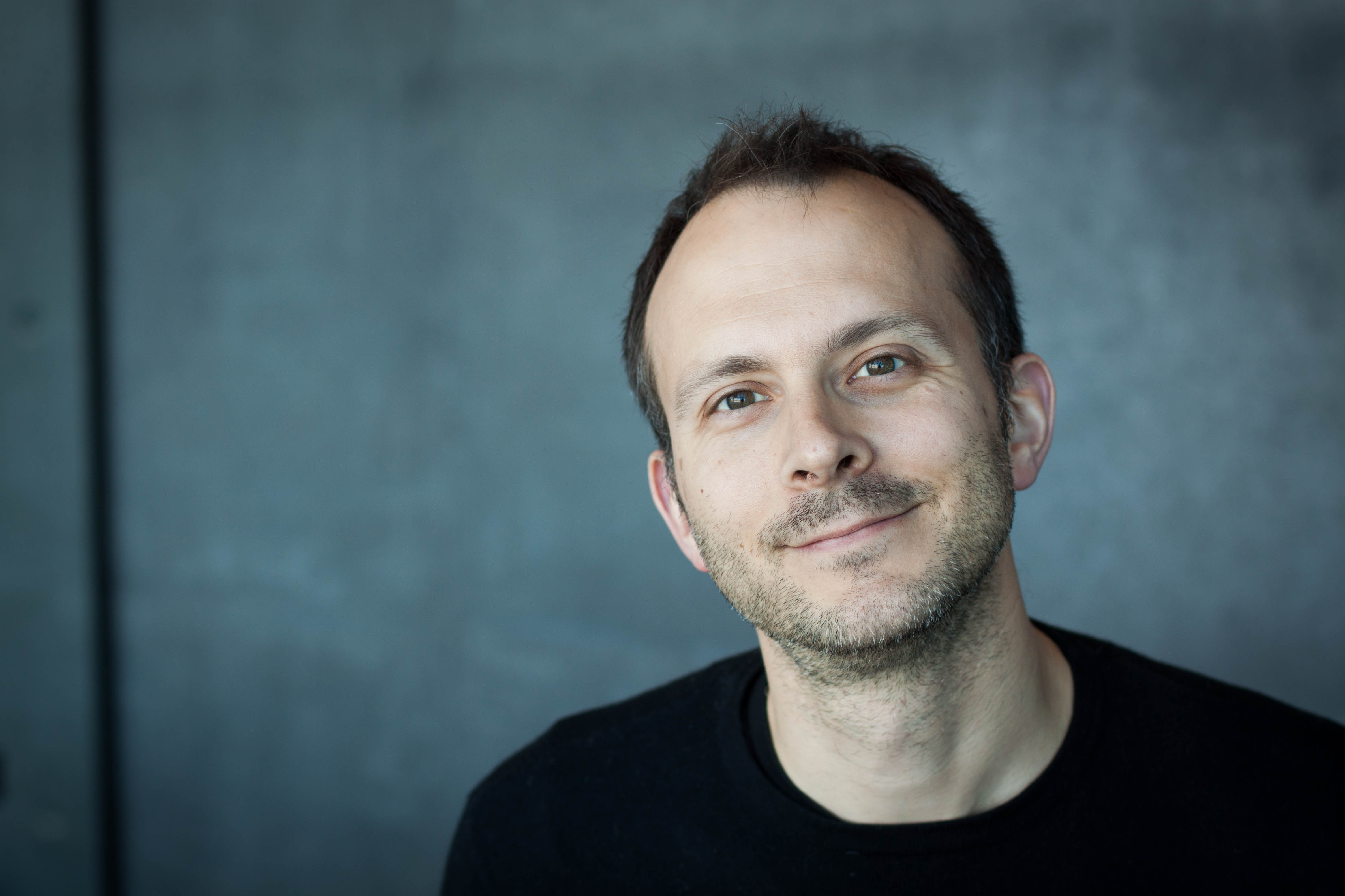 Tim Harford. Photo by Emily Qualey for PopTech